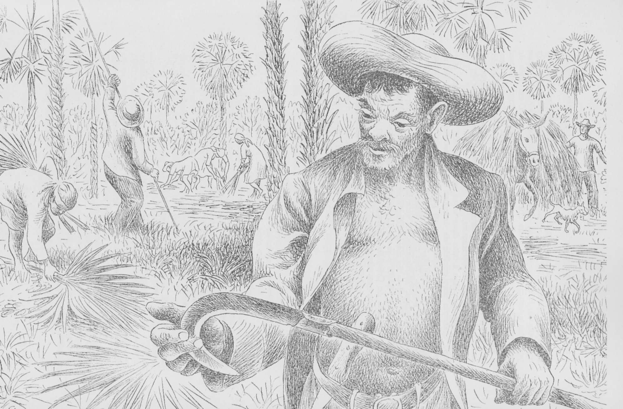 Details of the Carnaúba harvesting tool. [